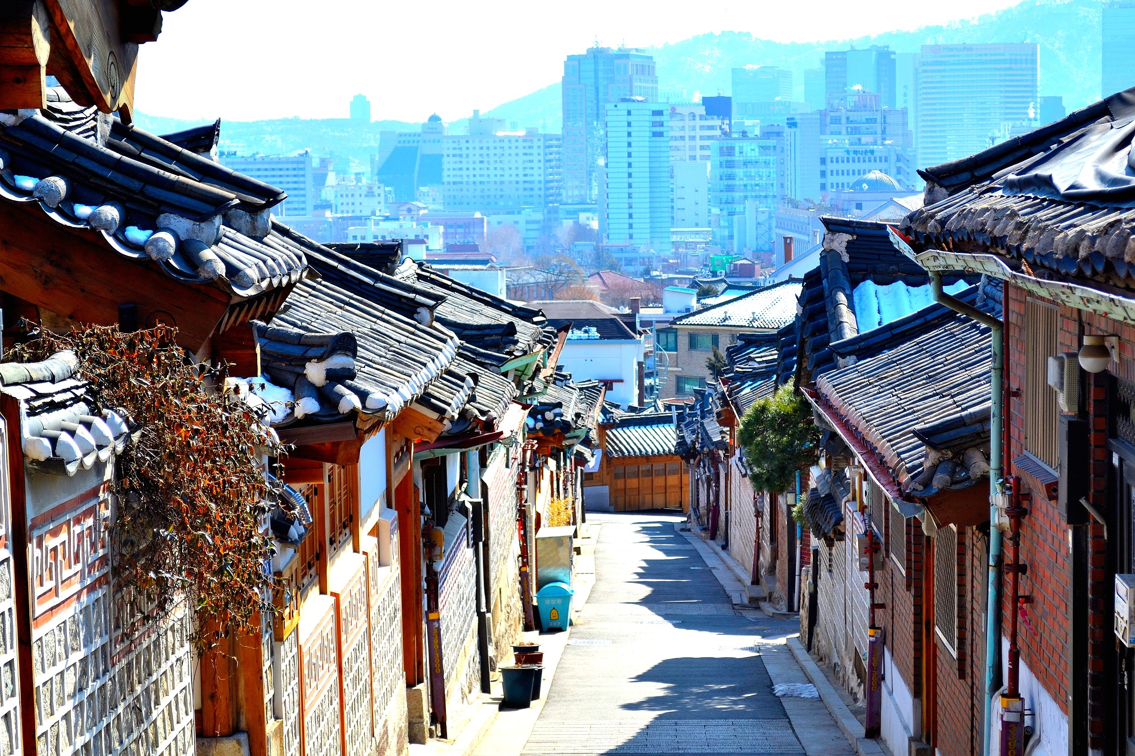 Bukchon Hanok Village